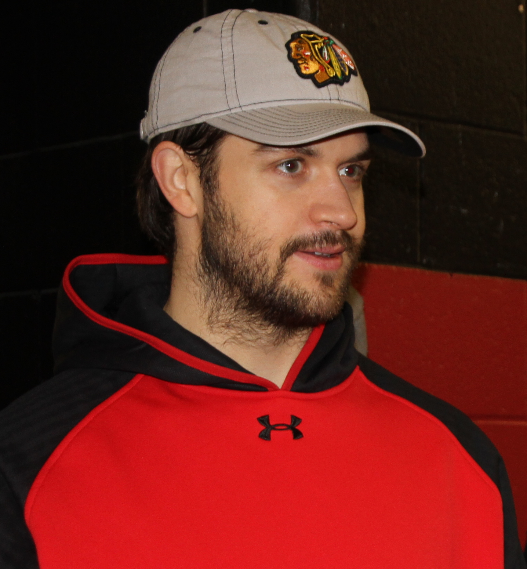 U.S. Ambassador to Canada Bruce Heyman meets with Chicago Blackhawks player, Brent Seabrook, at the Canadian Tire Centre in Ottawa, Canada.